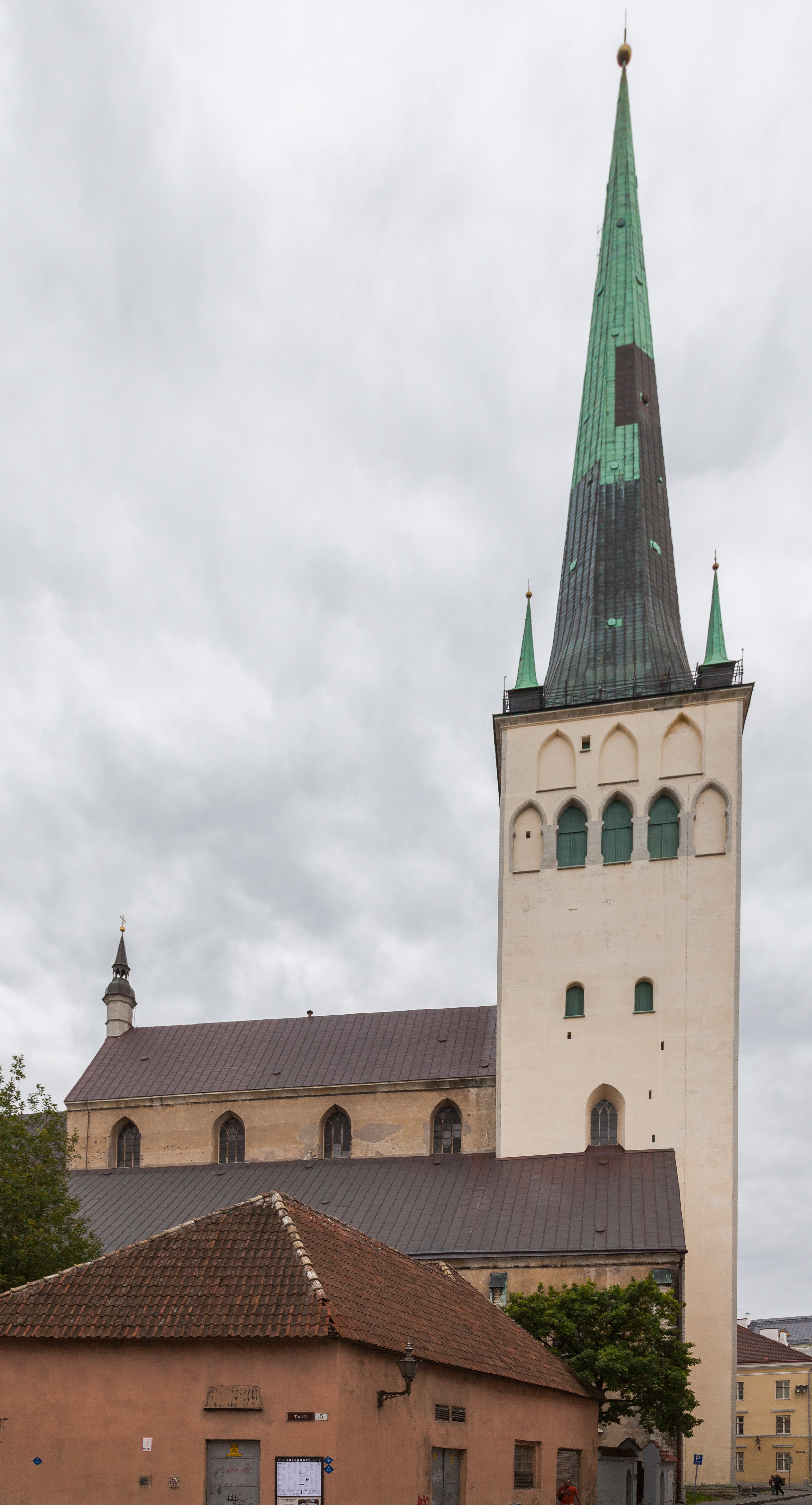 St Olaf's Church, Tallinn, Estonia